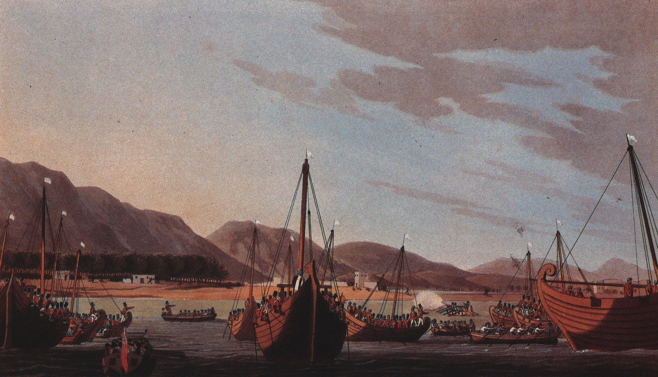 The British Expeditionary Force of 1809 landing troops at Ras Al Khaimah, today in the United Arab Emirates